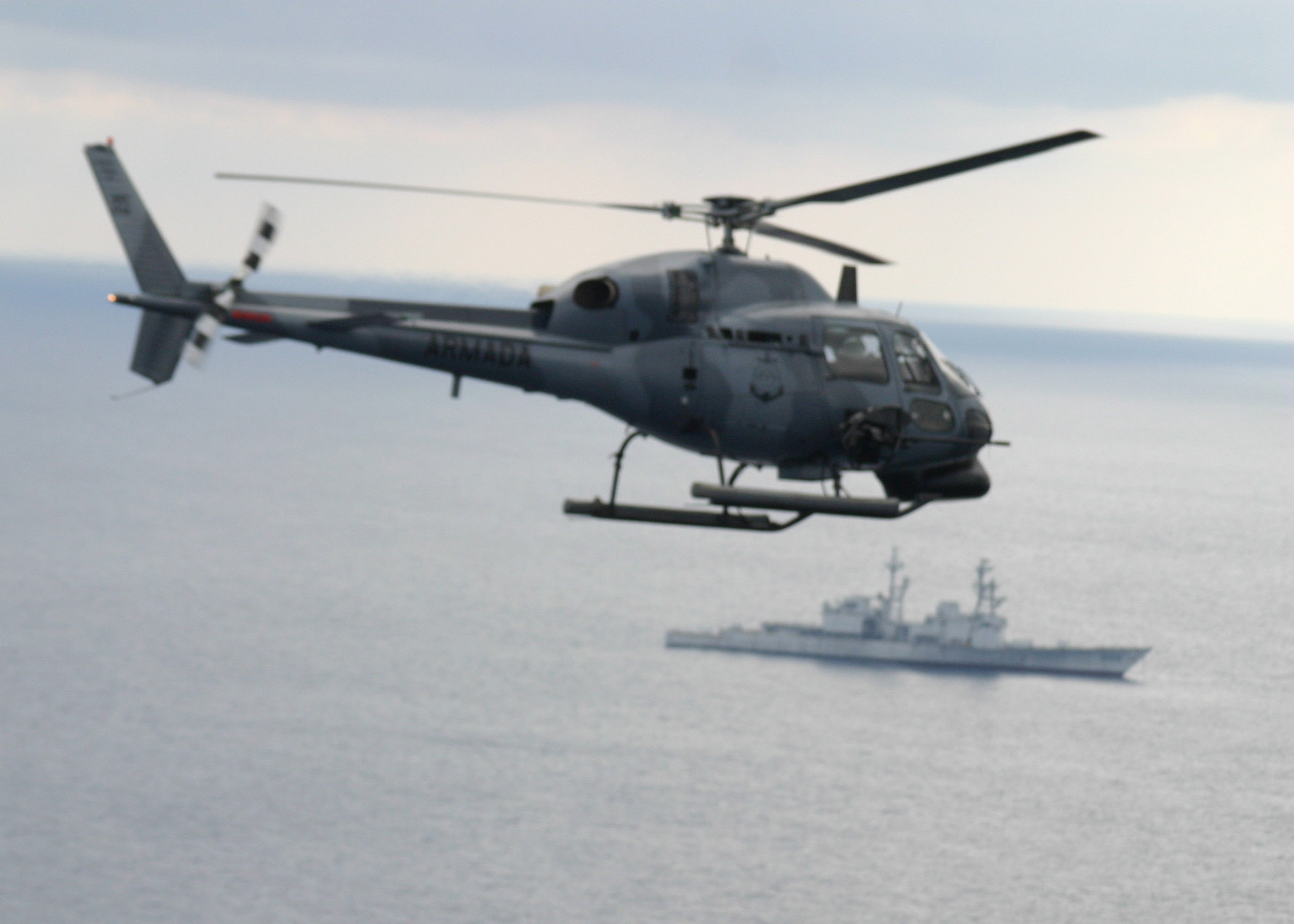 A Colombian AS-555 Fennec helicopter from the frigate ARC Almirante Padilla (FM-51) moves into position and takes aim at the decommissioned U.S. Navy destroyer Connolly (DD 979) during the sinking exercise portion of UNITAS Gold April 29, 2009, in the Atlantic Ocean. Maritime forces from Brazil, Canada, Chile, Colombia, Ecuador, Germany, Mexico, Peru, the United States, and Uruguay are participating in UNITAS Gold, which provides the opportunity to conduct and integrate joint and combined land, maritime, coast guard and air operations in a realistic training environment. The exercise is taking place April 20-May 5 off the coast of Florida. (U.S. Navy Photo by Chief Mass Communication Specialist Dawn C. Montgomery/Released)